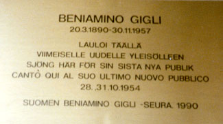 Beniamino Gigli memorial plate Helsinki